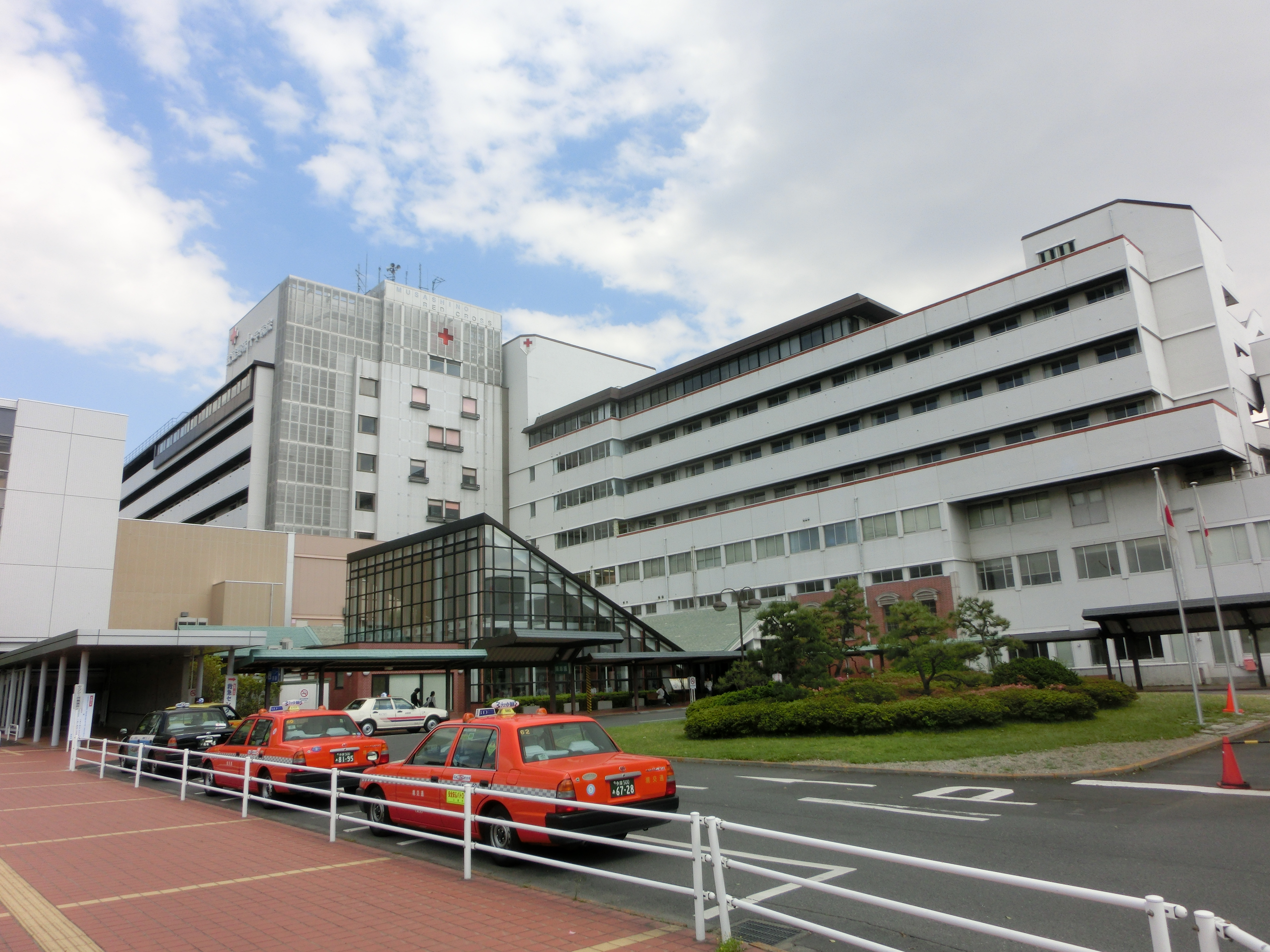 Musashino RedCross Hospital